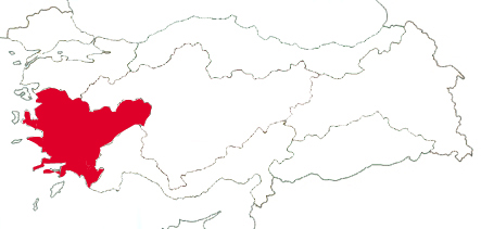 Locator map of the Aegean Region — in southwestern Anatolia, Turkey.